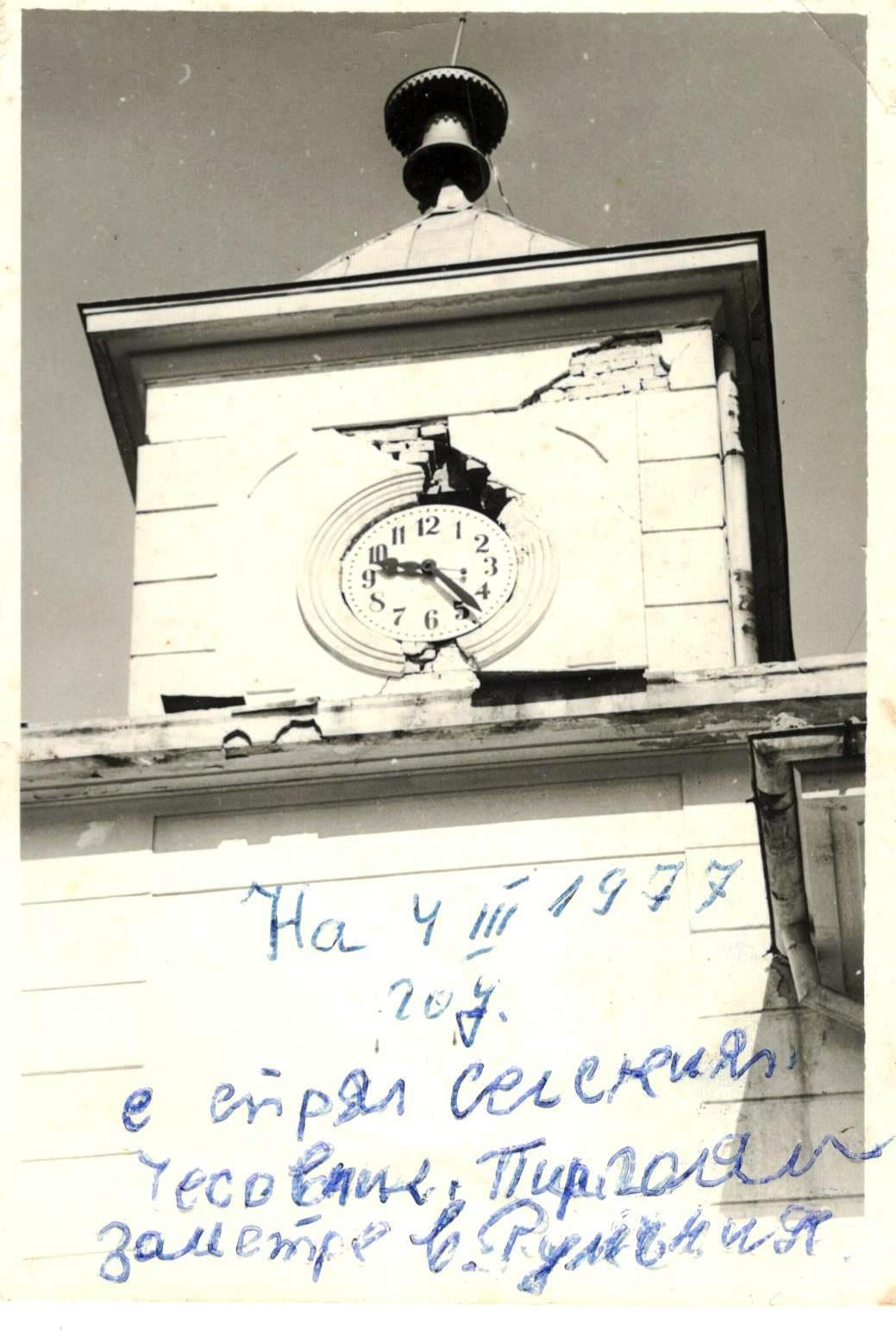 The owner of the picture, Assen Litev, wrote "On 4.III.1977 the village watch has stopped after a big earthquake in Romania".